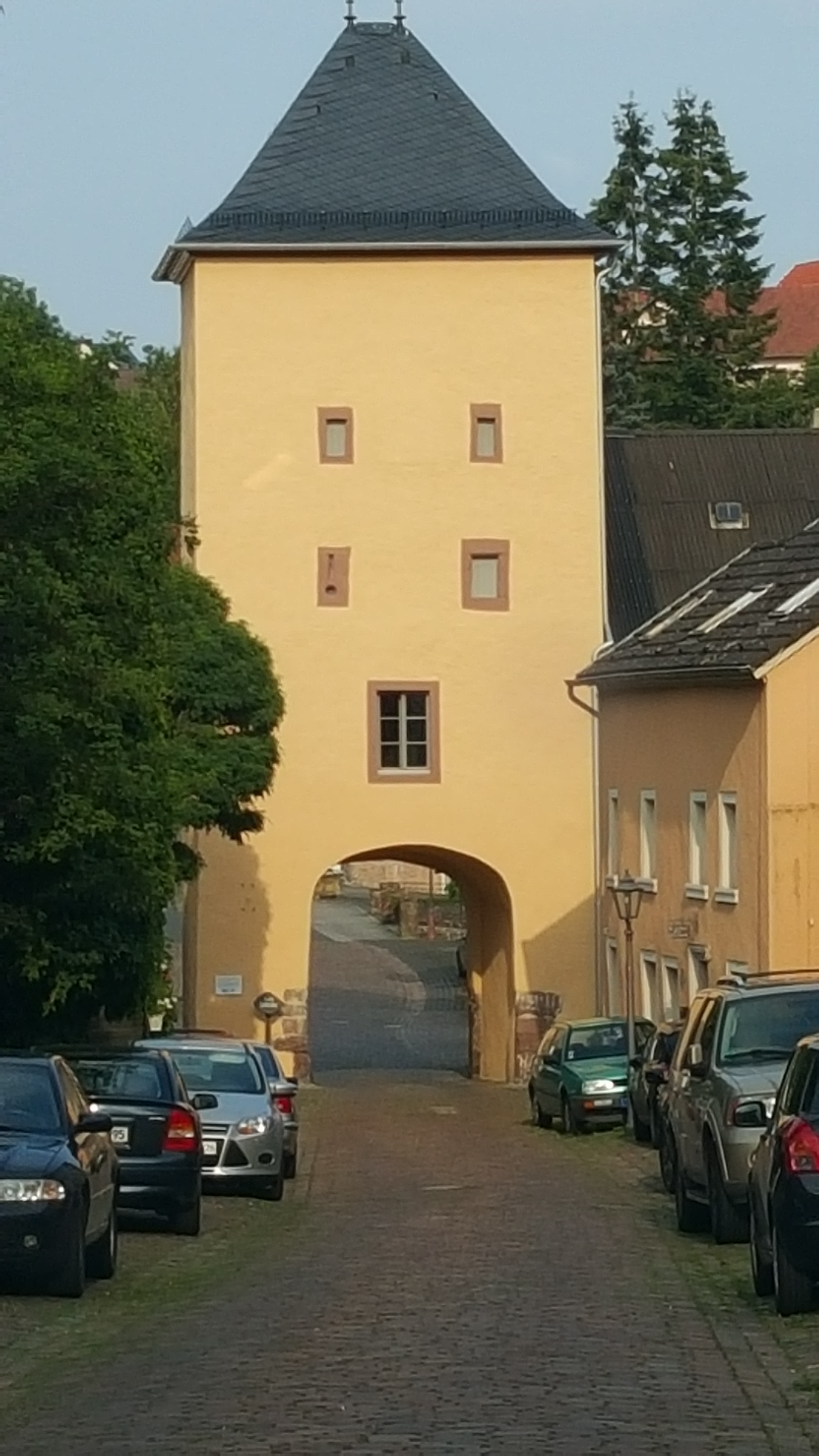 Dudedorf the lower gate after renovation in 2015